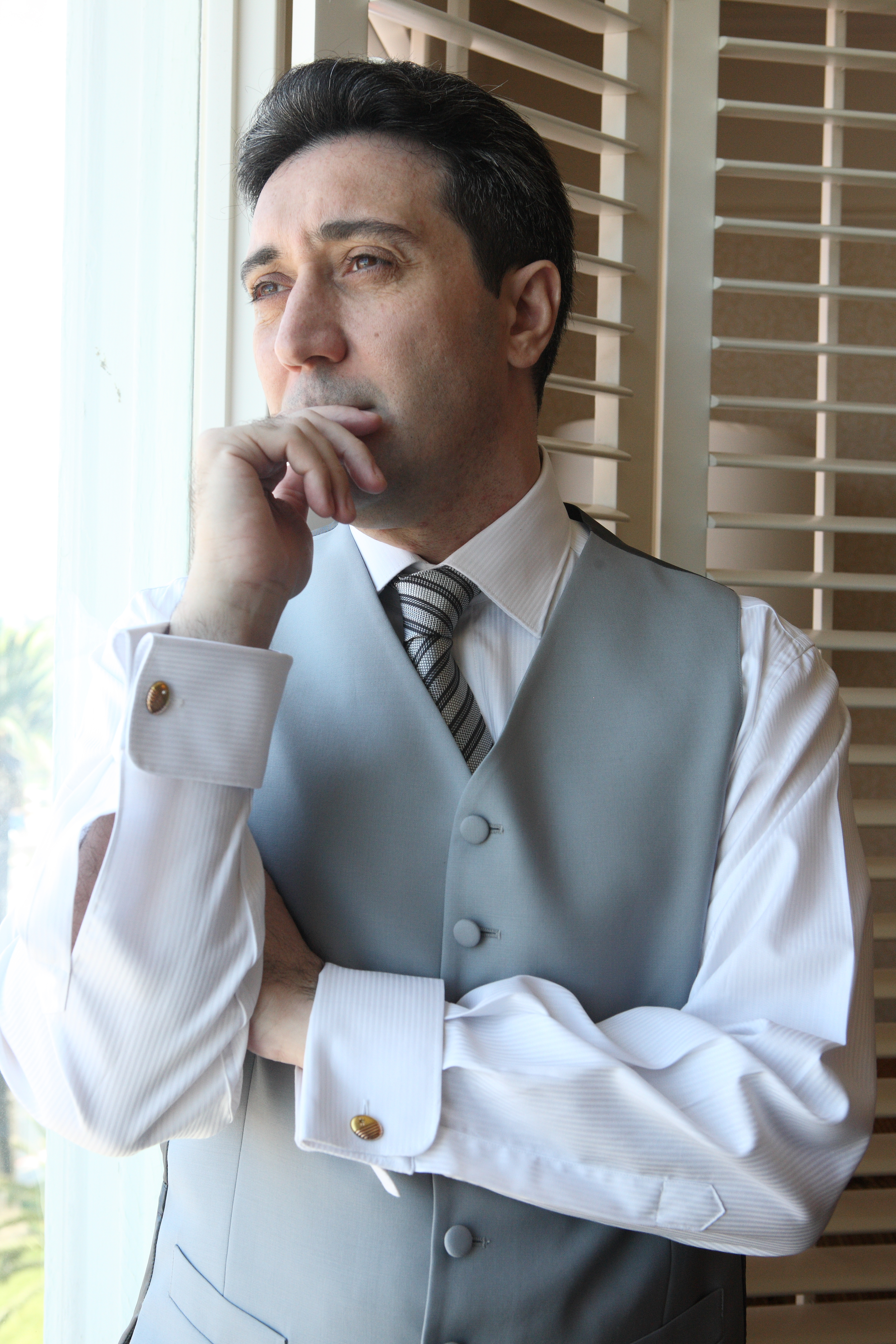 Photo of Salvatore Di Vittorio